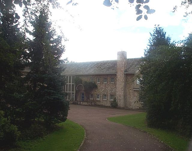 Carleton, Pontefract, 'Manasseh'